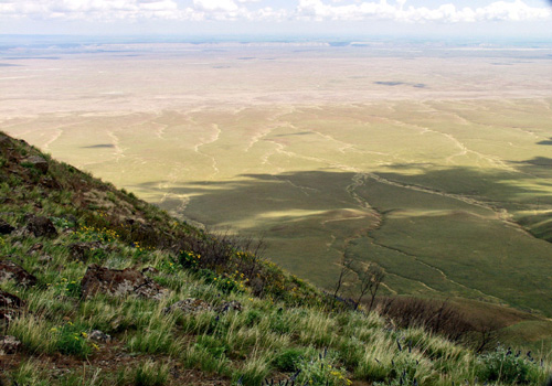 Looking down from Rattlesnake Mountains into Hanford Reach National Monument, Washington, USA